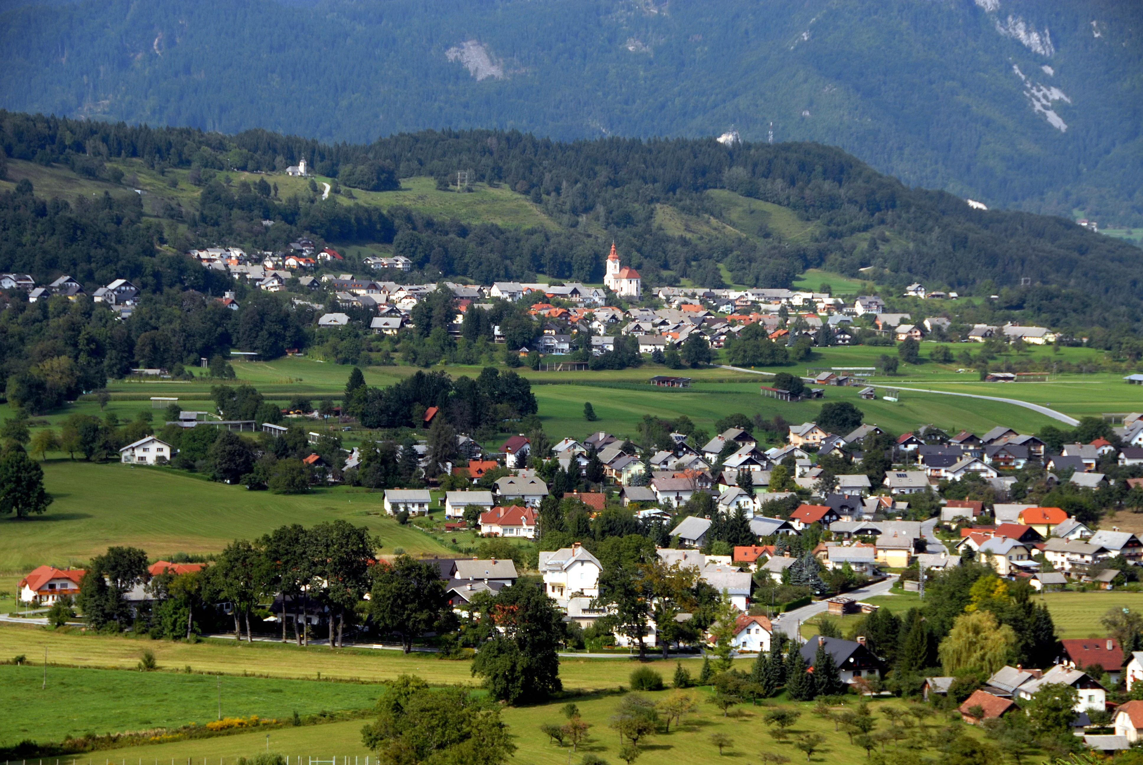 Villages Gmajna and Zasip north of Bled Castle, Bled, Slovenia